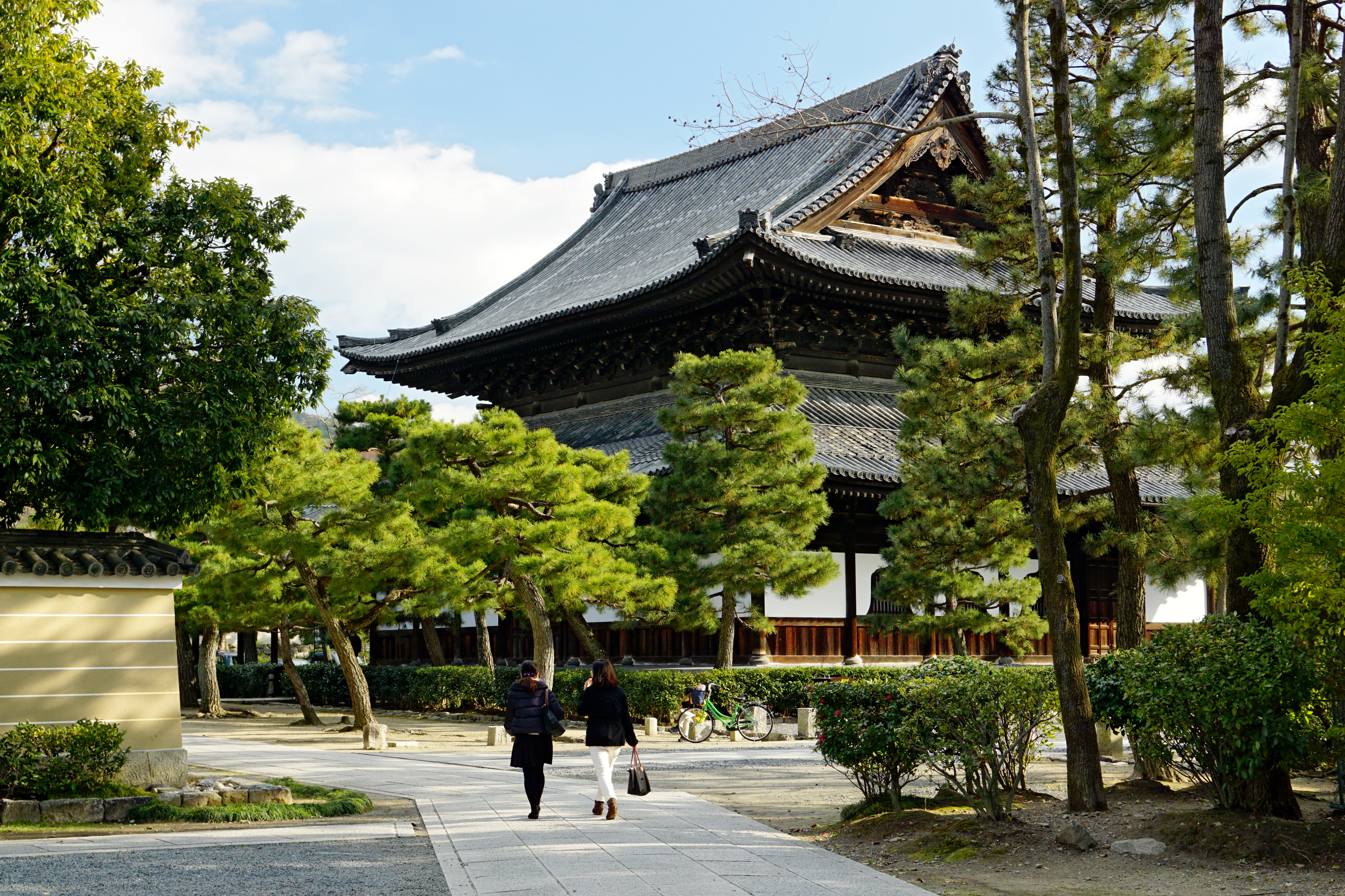 At Kennin-ji in Higashiyama-ku, Kyoto, Kyoto prefecture, Japan.